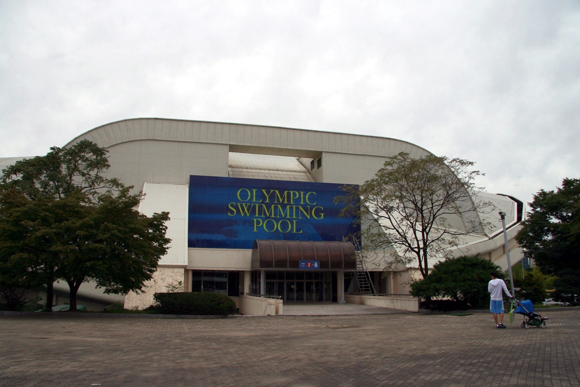 Olympic Swimming Pool at Olympic Park, Songpa-gu, Bangi-dong, Seoul in 2012